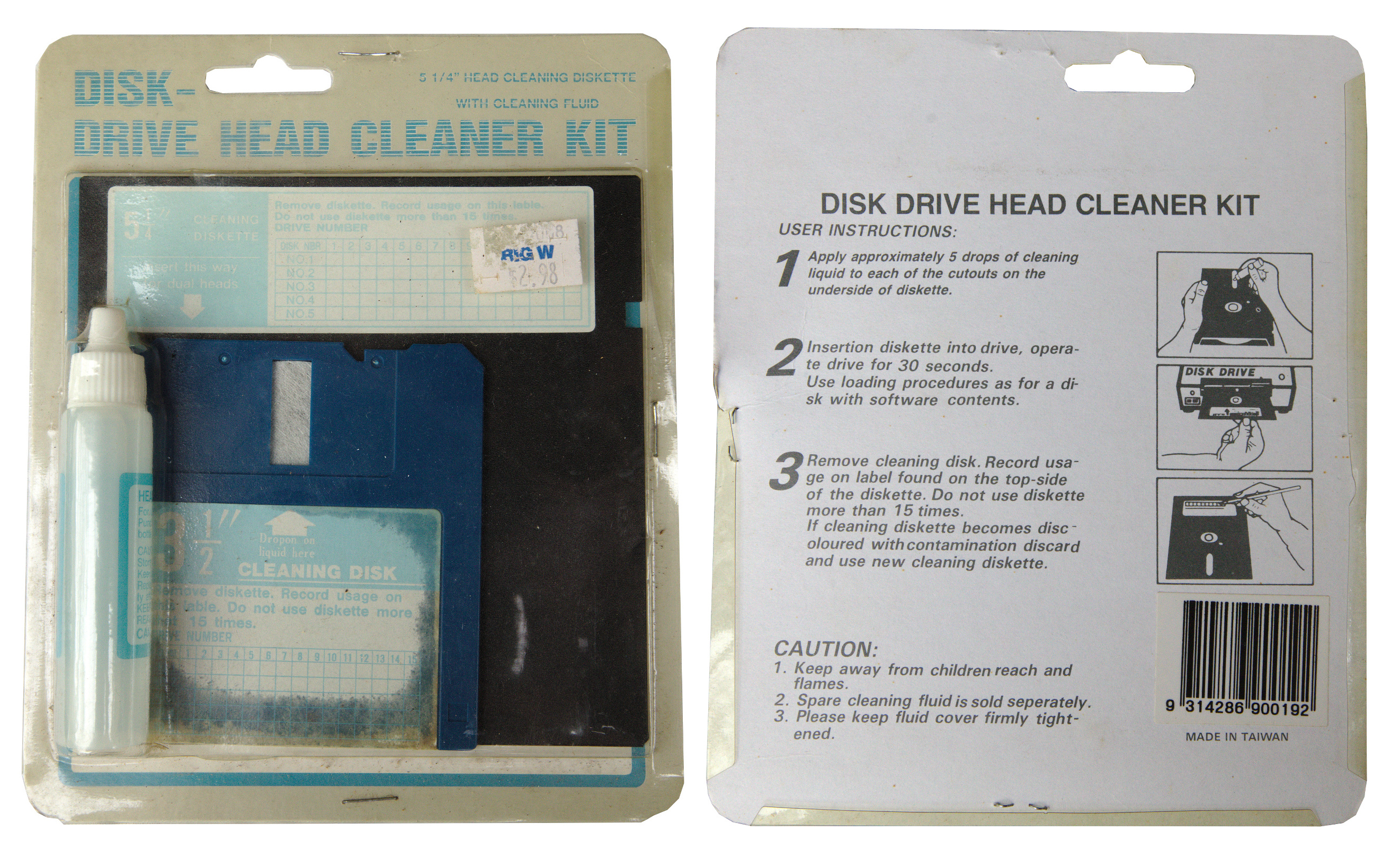 Front and rear of a retail 3.5" and 5.25" floppy disk cleaning kit, as sold in Australia at retailer Big W, circa early 1990s.